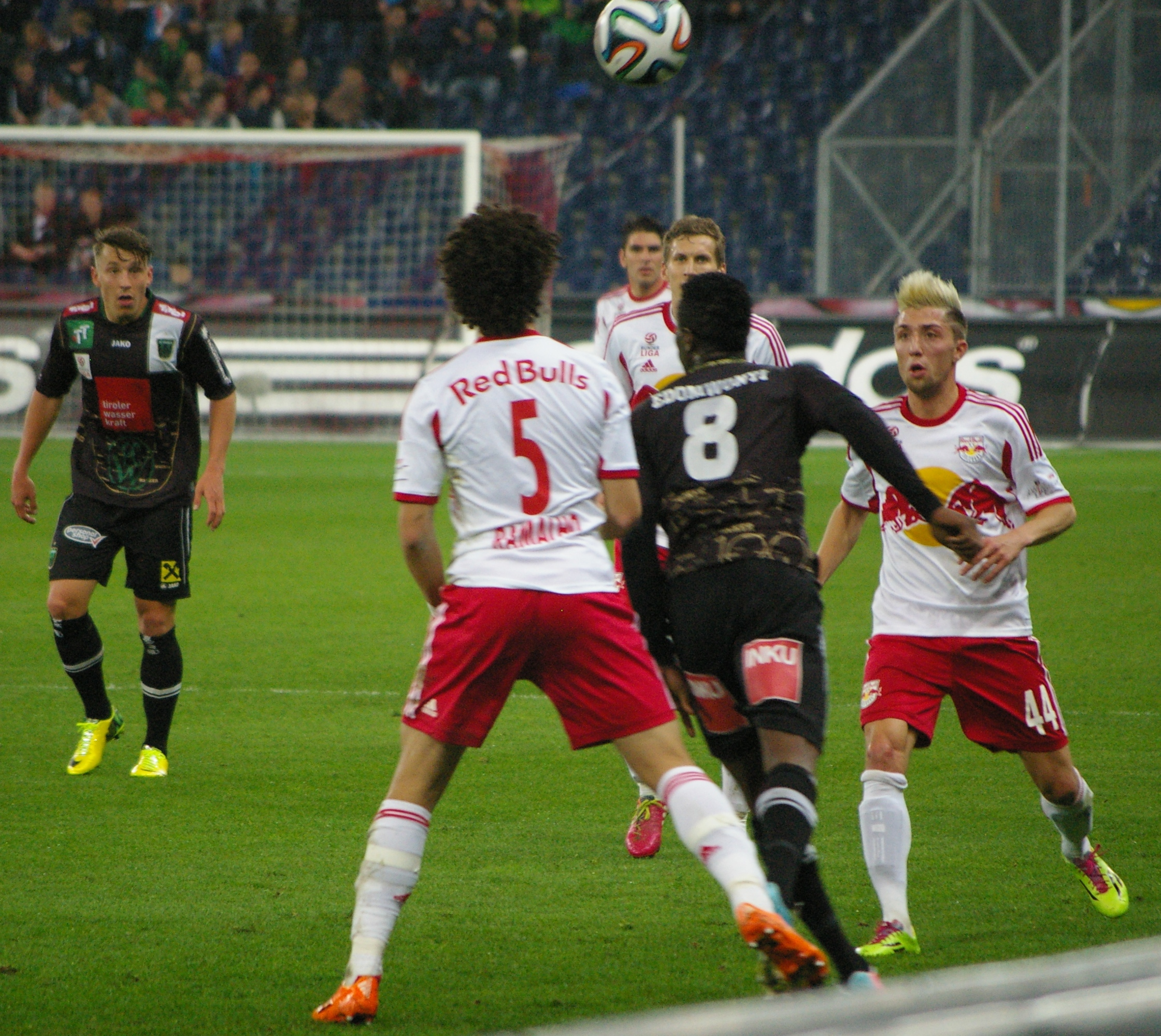 Austrian Bundesliga match 30rd round